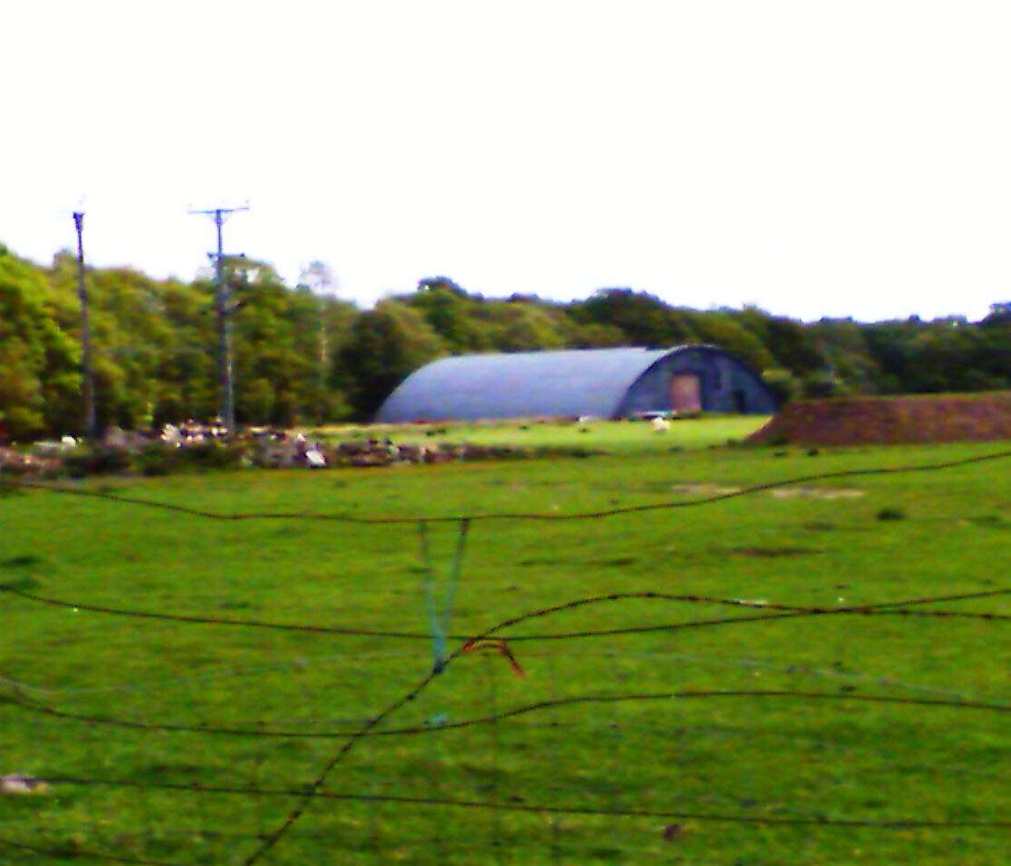 Disused hangar at Tranwell Airfield. Took With an O2 Xda.